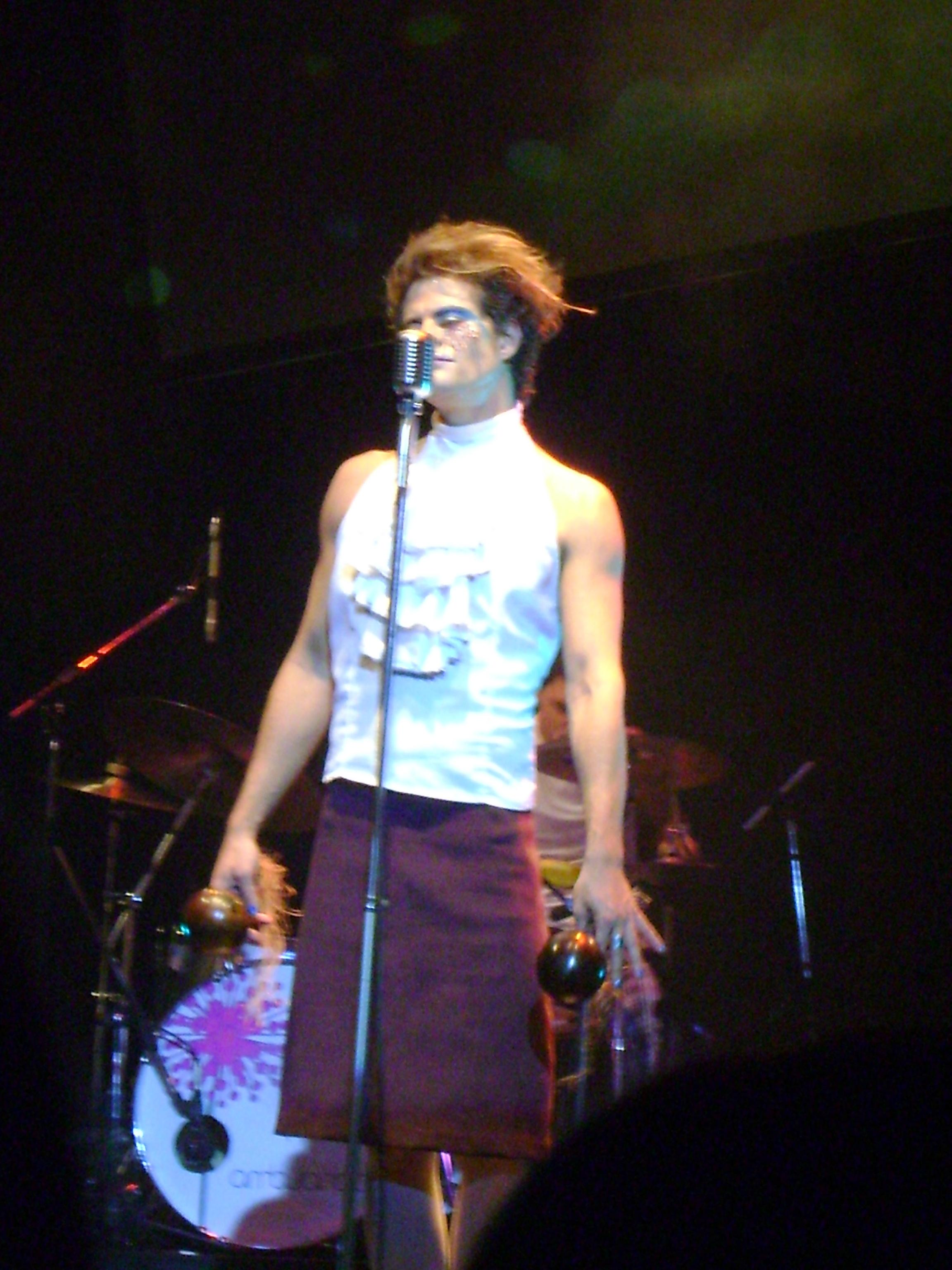 Mike Amigorena in Ambulancia